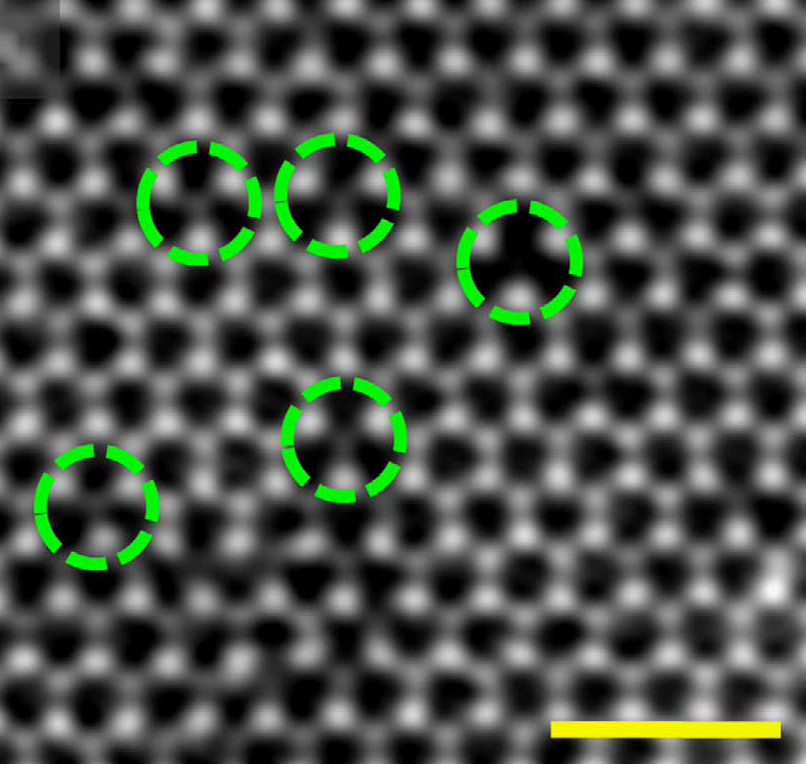 Atomic resolved STEM–ADF images to reveal the distribution of vacancies, including VS and VS2, observed in ME monolayers. Scale bar, 1 nm.